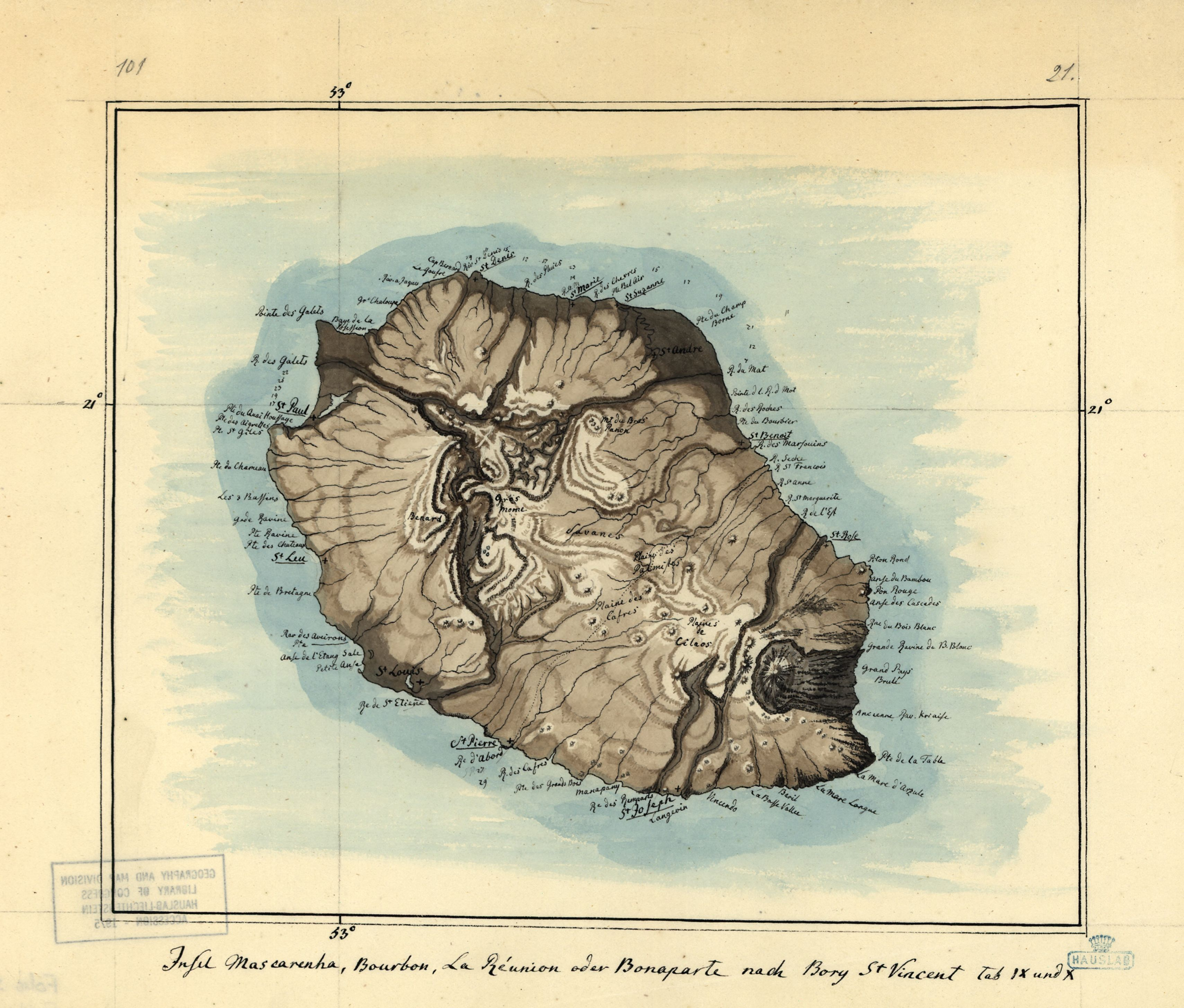 Relief shown by shading and hachures. Pen-and-ink and watercolor. Available also through the Library of Congress Web site as a raster image. Previous file number: B 101-22.